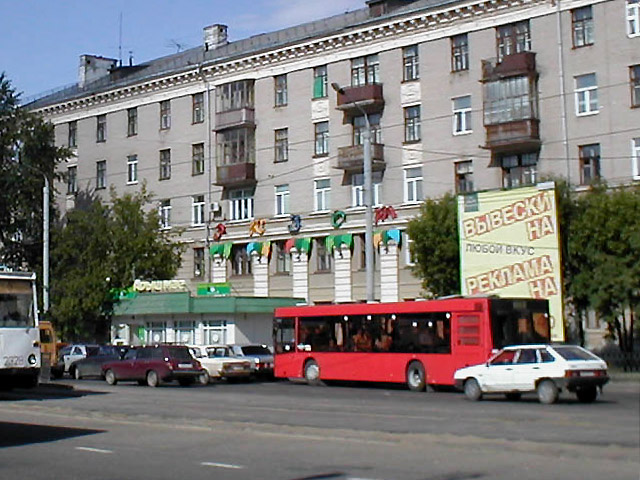 Exotica zoocentre on Vosstaniya square in Kazan